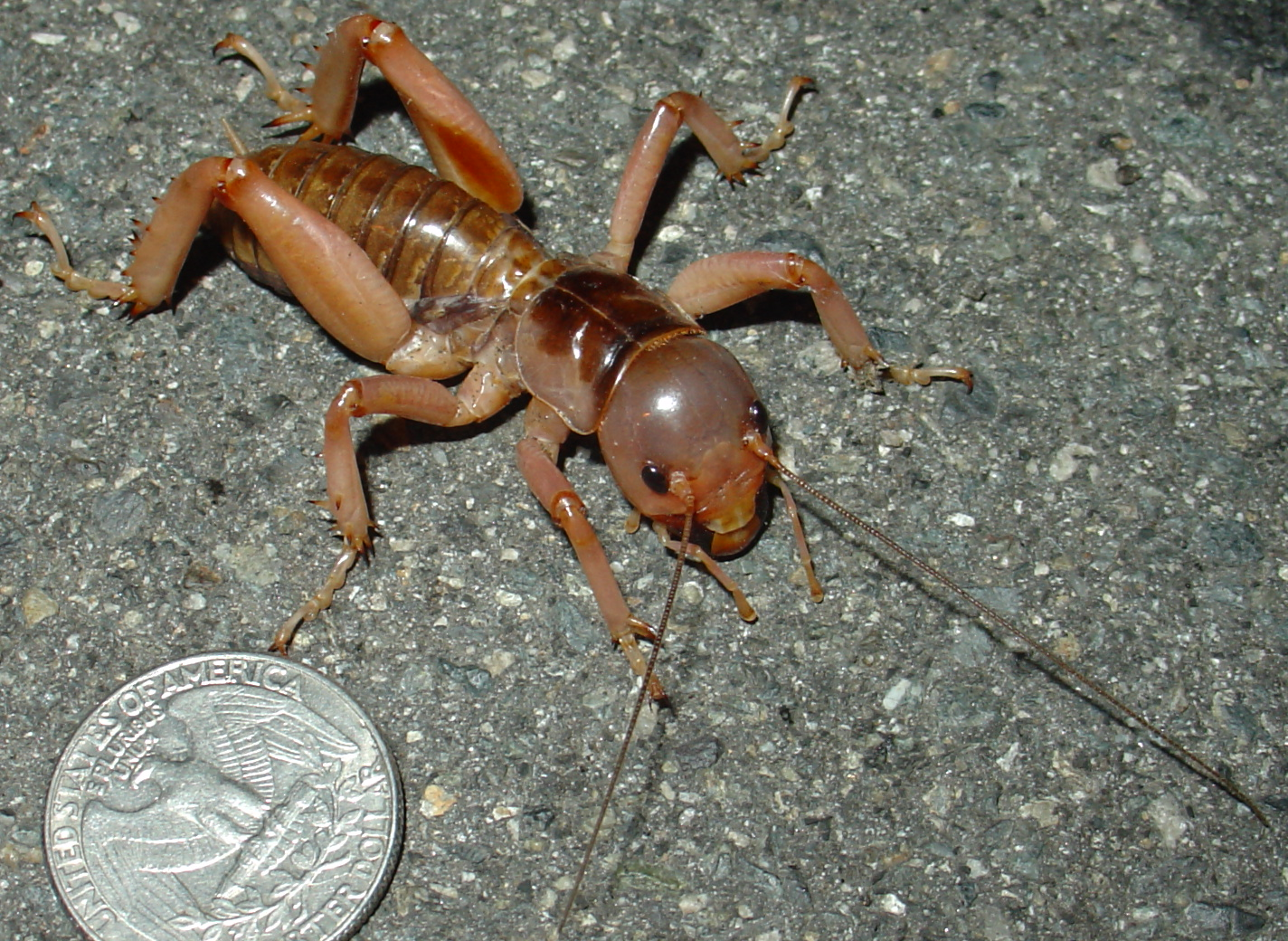 A mahogany Jerusalem cricket (Stenopelmatus n. sp. "mahogany"). It lacks the abdominal striping pattern found in all other Stenopelmatus species. It is the second largest insect species known in California -- this one's body is 50mm long. Photographed in the wild (on a paved road) in San Diego, California.